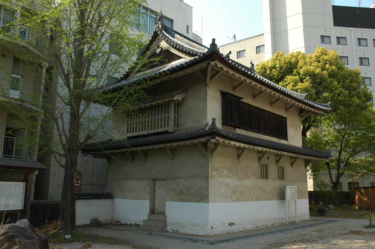 photo of Okayama Castle Nishinomaru-Nishiteyagura turret(Japan's national important cultural property)